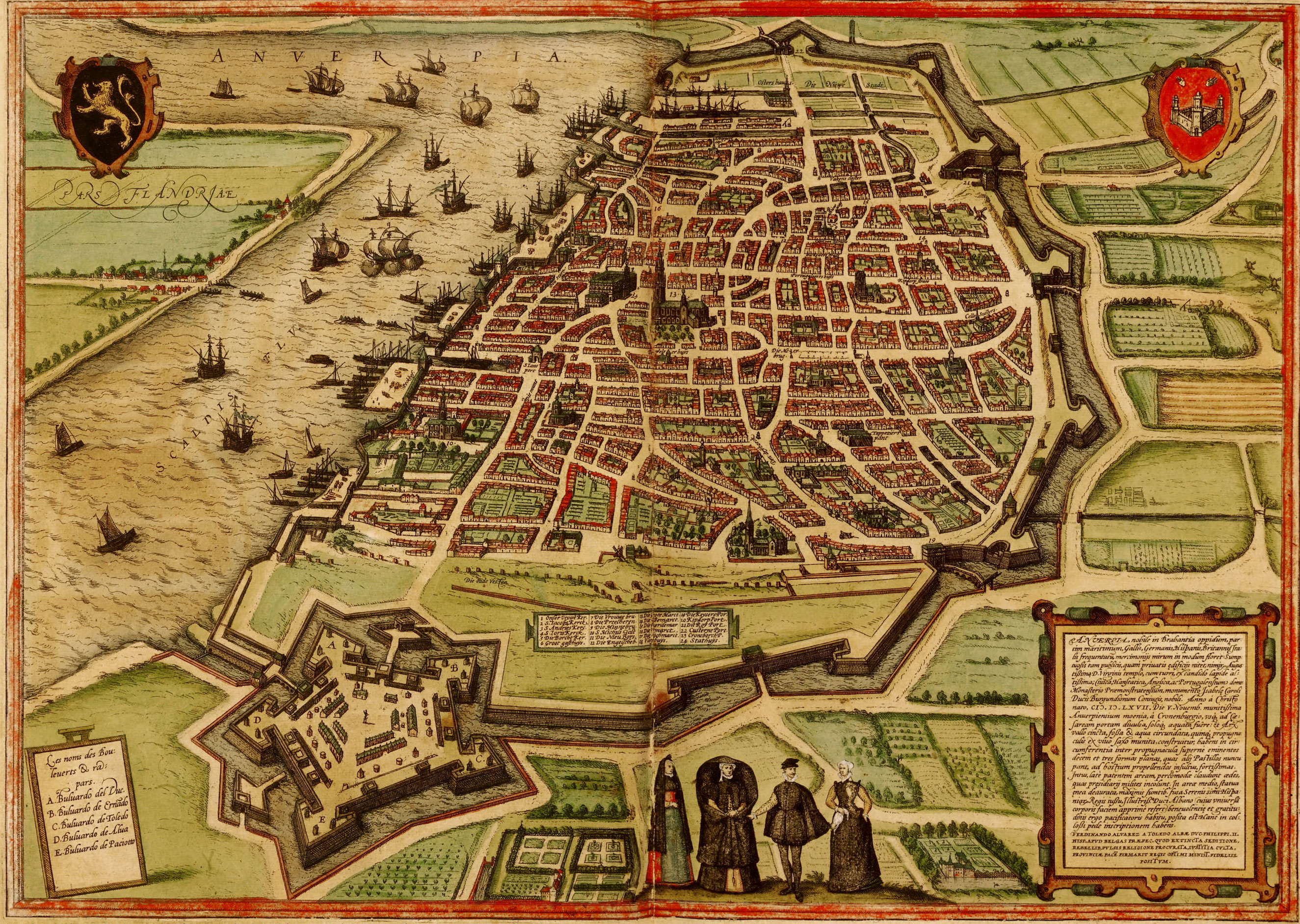 Anverpia - bird's-eye view of the city of Antwerp (Brabant) from Georg Braun and Frans Hogenberg's atlas Civitates orbis terrarum, vol. I, 1572